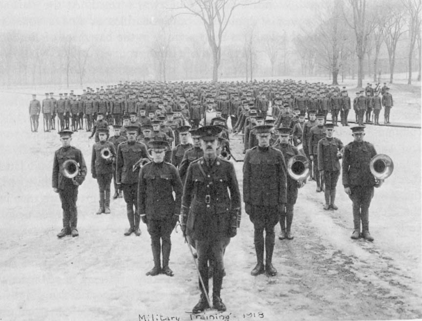 The Andover Battalion "Military Training", 1918, Phillips Academy, Andover, MA